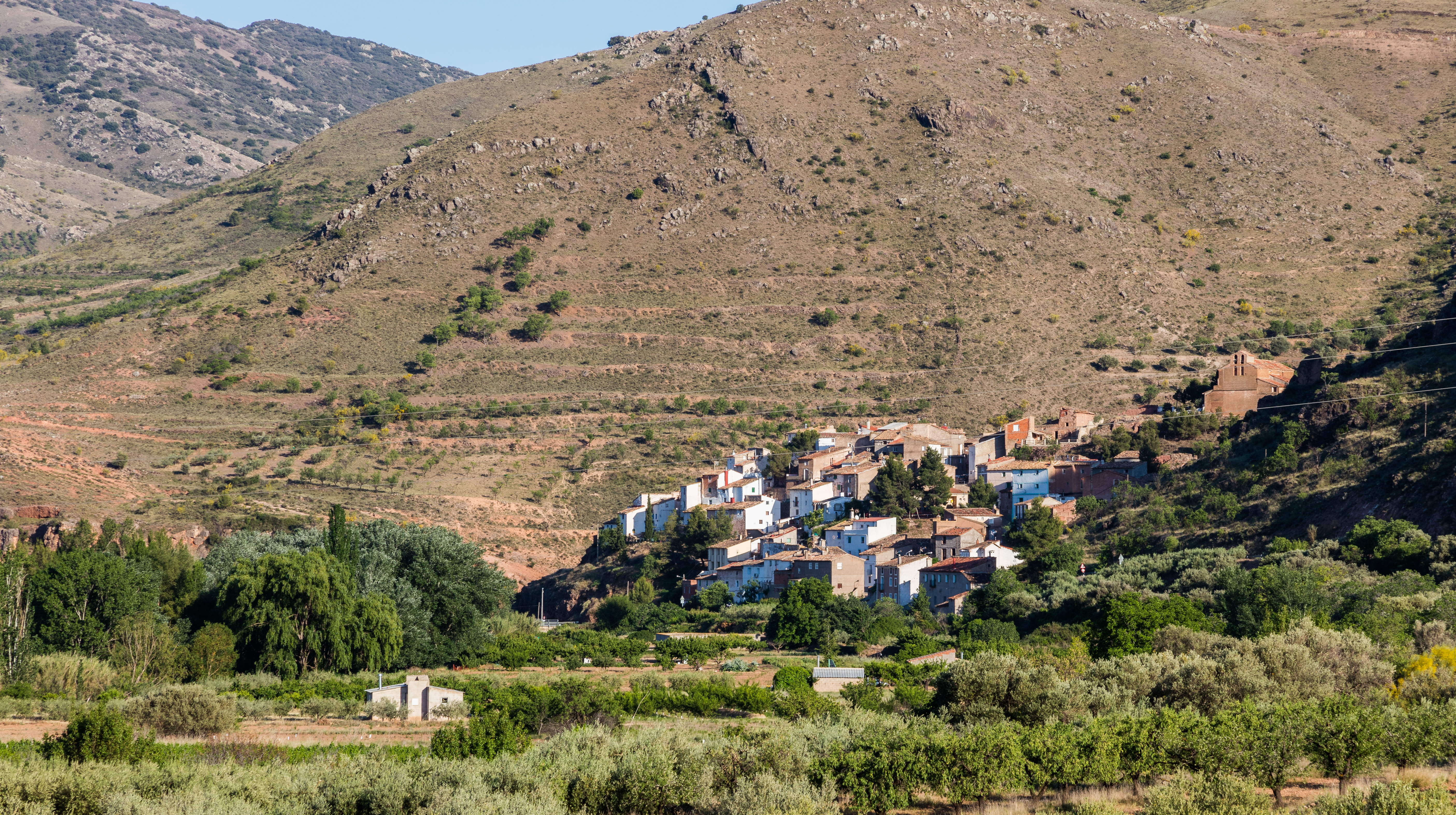 Purroy, Zaragoza, Spain